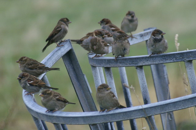 House sparrows, Norwick, near to Norwick, Shetland Islands, Great Britain. Although faring better in Shetland than in other parts of Britain, the House Sparrow's fortunes have fluctuated in recent years.